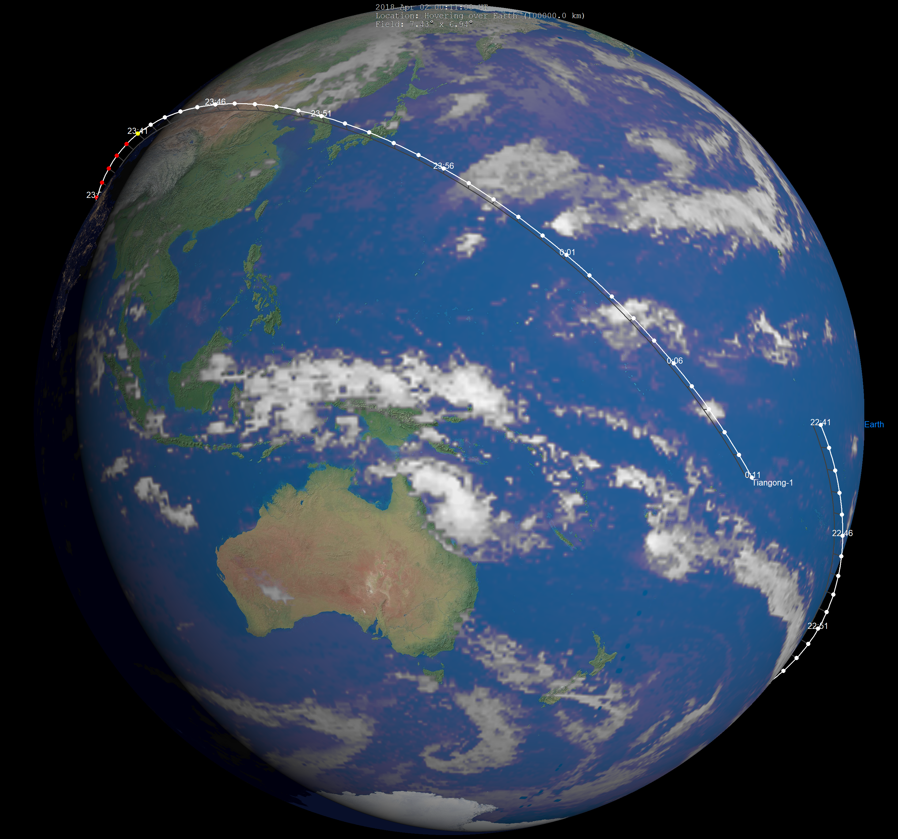 Tiangong-1 final orbit, using JPL Horizons ephemeris, earth map [1]. Live IR cloud data from